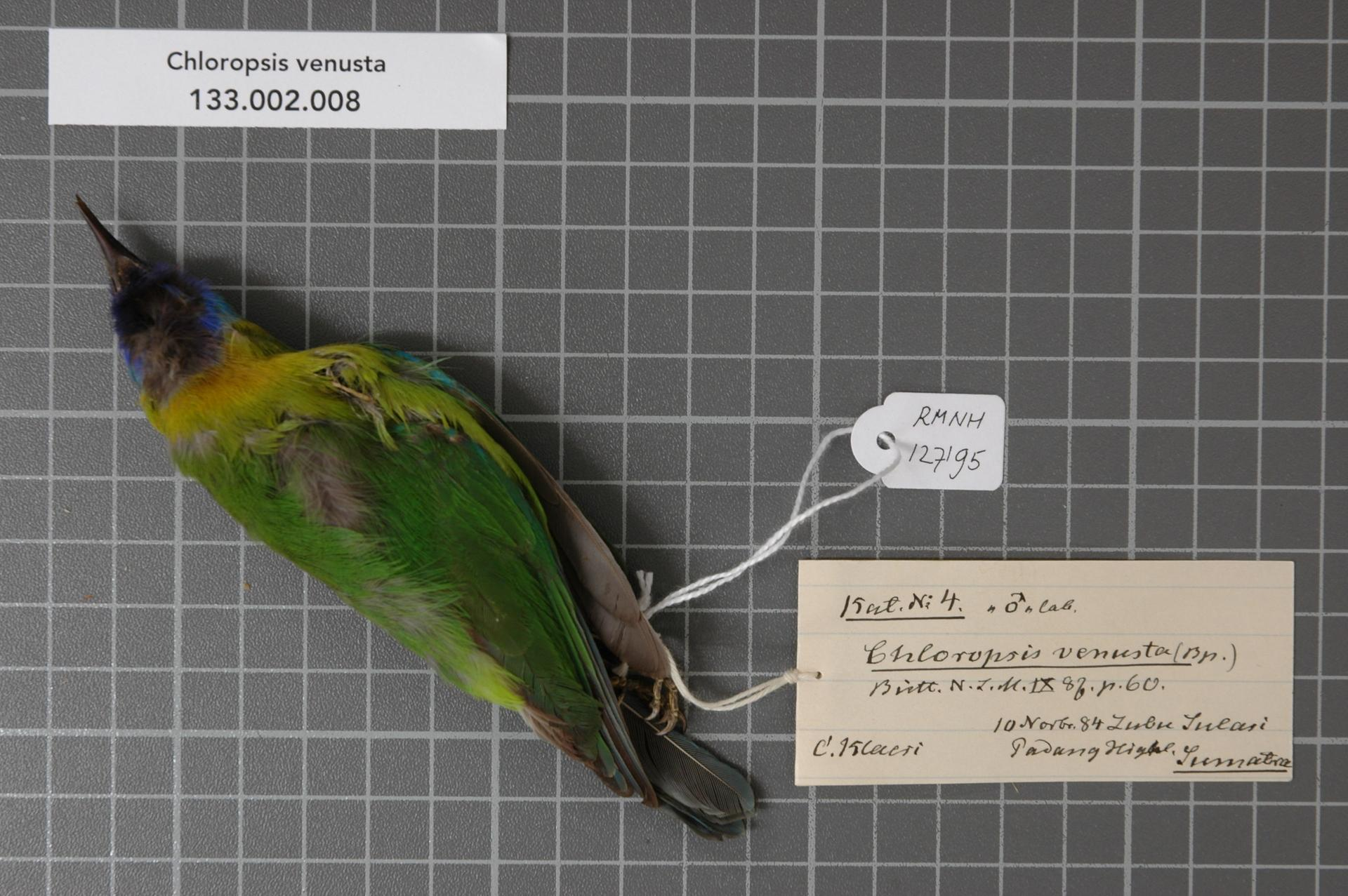 Chloropsis venusta (Bonaparte, 1850)